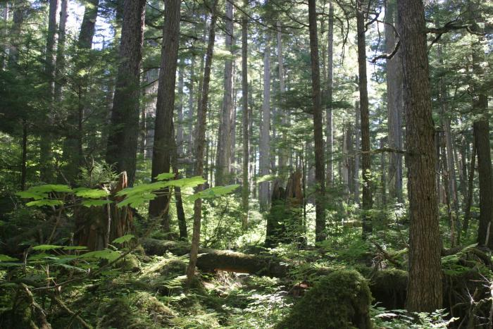 Tongass National Forest Taken by me on Douglas Island in the City and Borough of Juneau, Alaska. Henryhartley 03:06, Sep 20, 2004 (UTC)